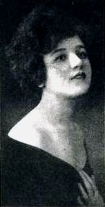 Theater actress Galina Kopernak (1902 - 1985), on page 104 of the April 1922 Dramatic Mirror.